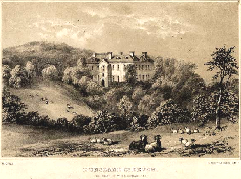 Dunsland House, Bradford, Devon, England. Inscribed: "Dunsland co. Devon, the seat of W.H.B.Coham Esqe."